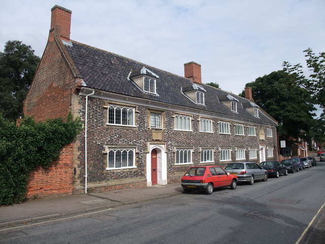 Leman House in Beccles, a former town school created by the Lord Mayor of London John Leman. A Grade I listed building.